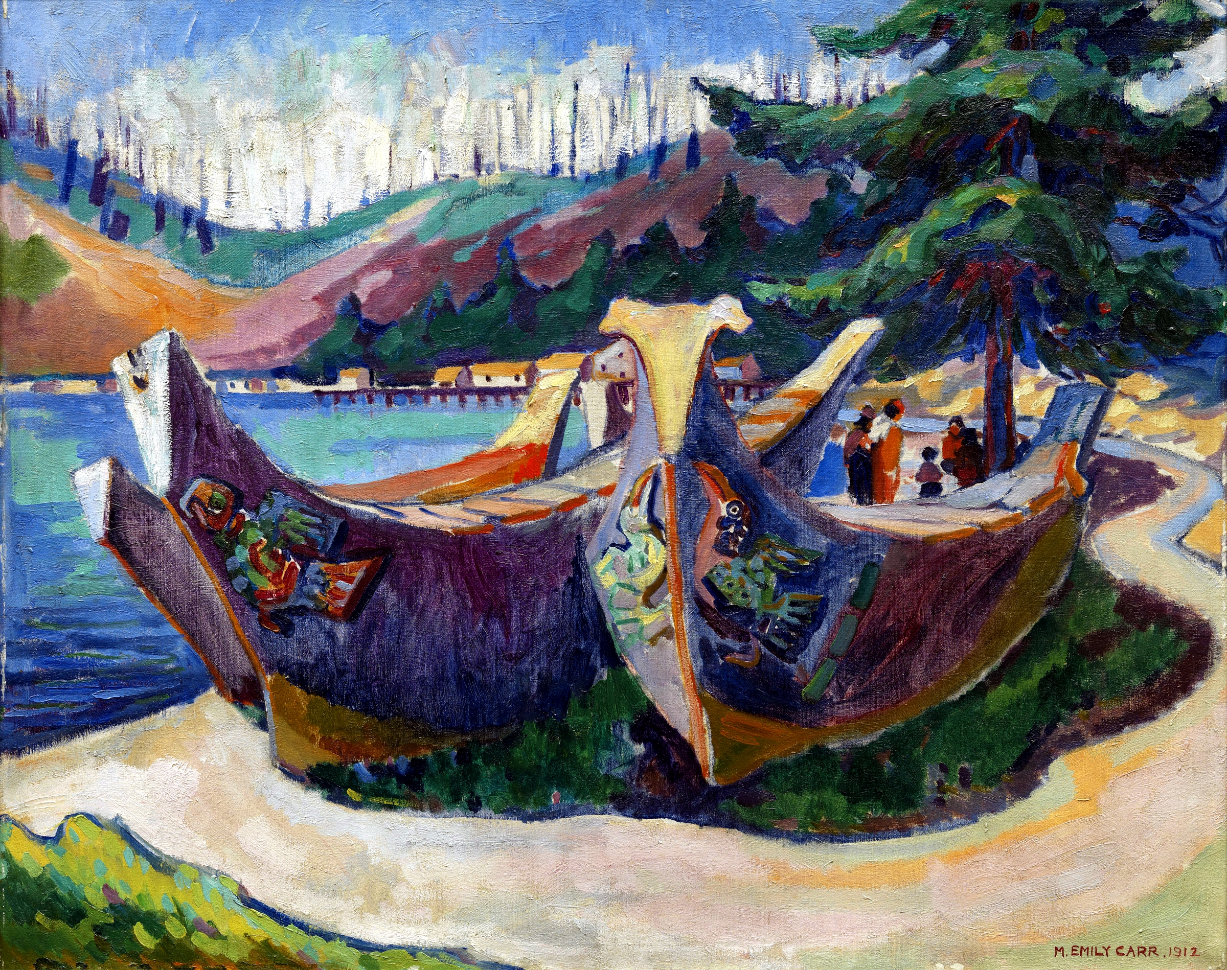 First Nations War Canoes in Alert Bay, 1912